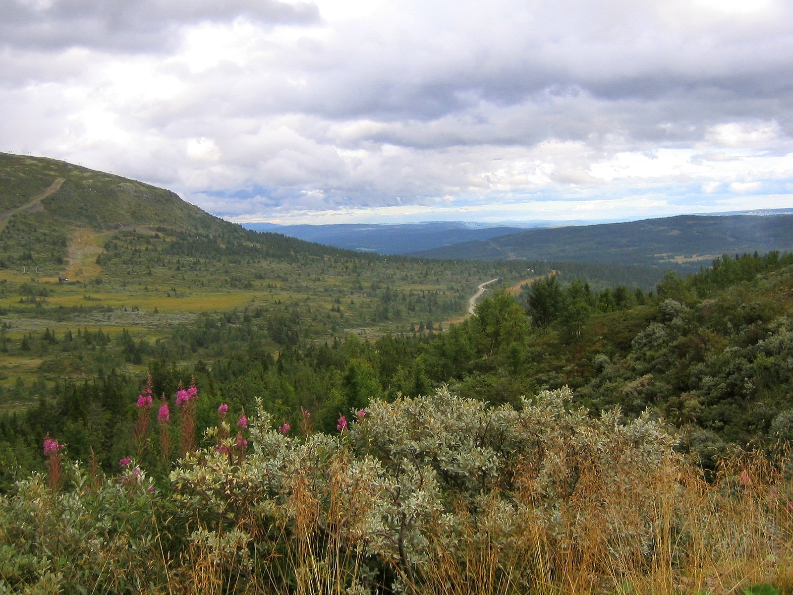 Peer Gynt Vegen, Norway